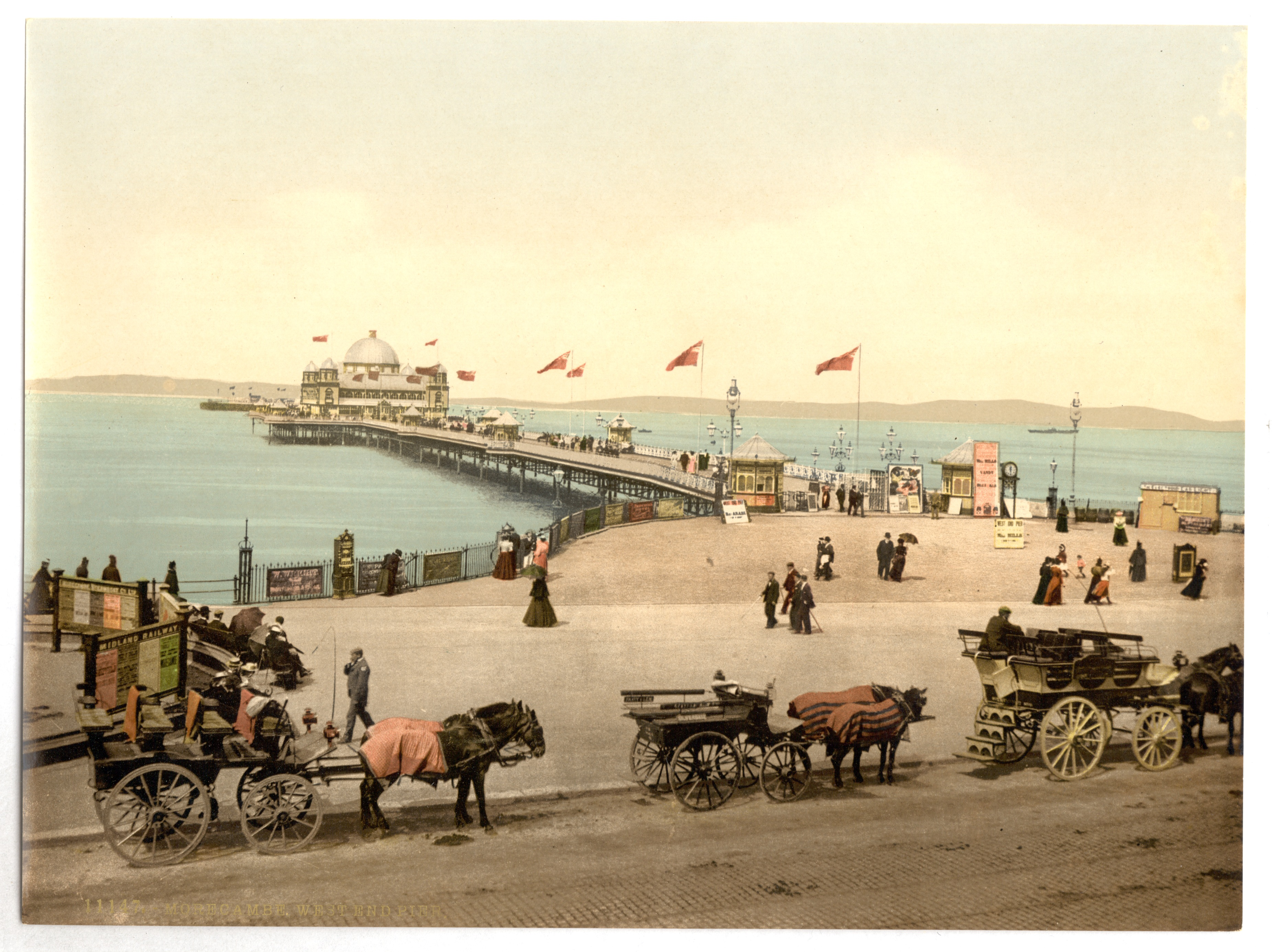 Print no. "11147".; Forms part of: Views of the British Isles, in the Photochrom print collection.; More information about the Photochrom Print Collection is available at Title from the Detroit Publishing Co., Catalogue J-foreign section, Detroit, Mich. : Detroit Publishing Company, 1905.